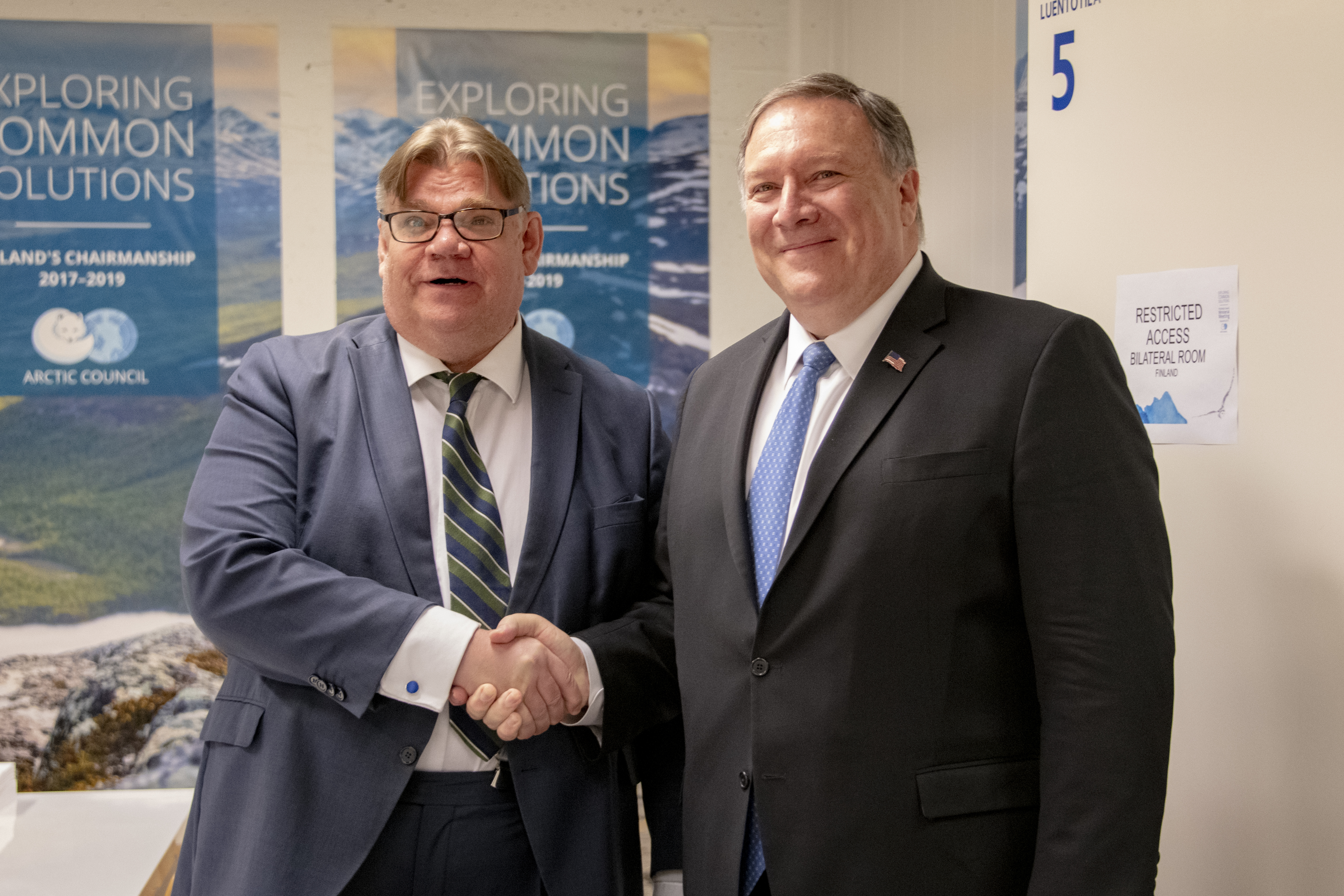 U.S. Secretary of State Michael R. Pompeo meets with Finnish Foreign Minister Timo Soini on the margins of the Arctic Council Ministerial Meeting in Rovaniemi, Finland, on May 7, 2019. [State Department Photo by Ron Przysucha/ Public Domain]